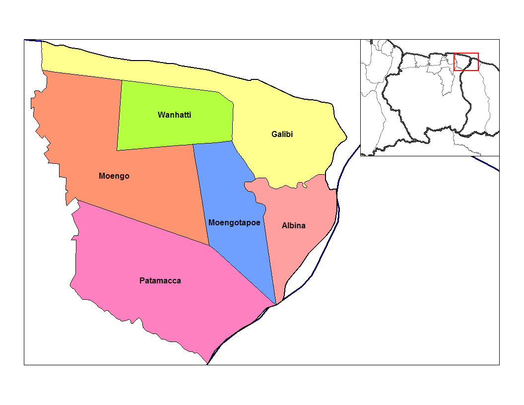 Map of the resorts of the Marowijne district in Suriname. Created by Rarelibra 22:49, 27 December 2006 (UTC) for public domain use, using MapInfo Professional v8.5 and various mapping resources. Rarelibra 22:49, 27 December 2006 (UTC)